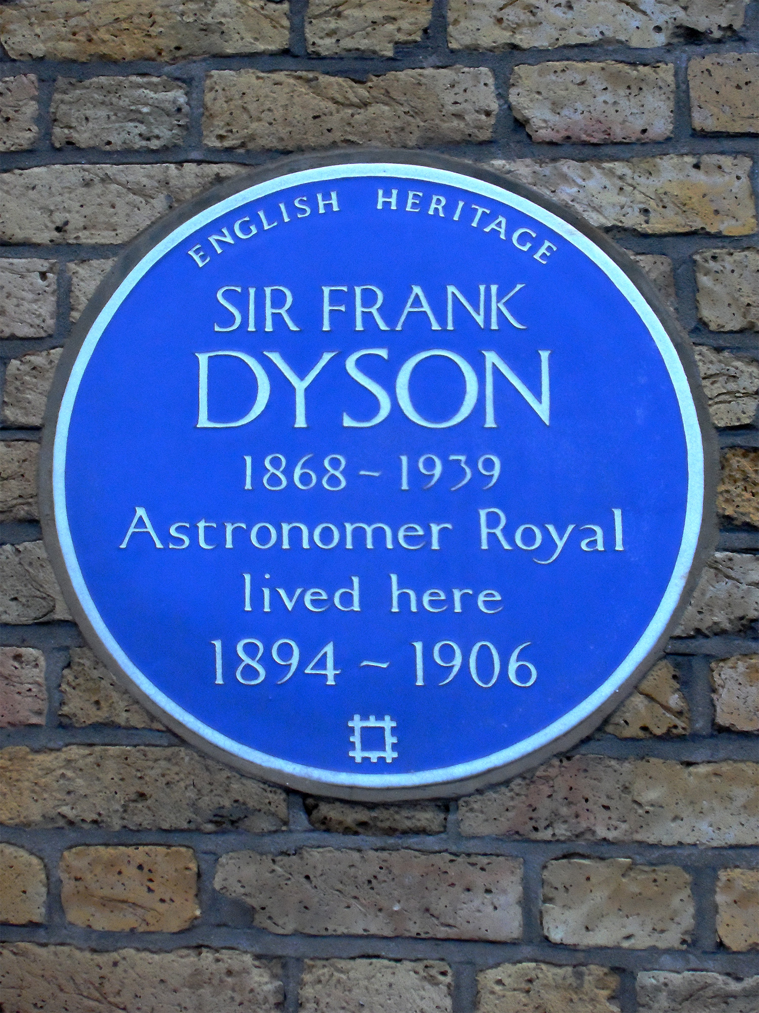 Blue plaque erected in 1990 by English Heritage at 6 Vanbrugh Hill, Blackheath, London SE3 7UF, London Borough of Greenwich